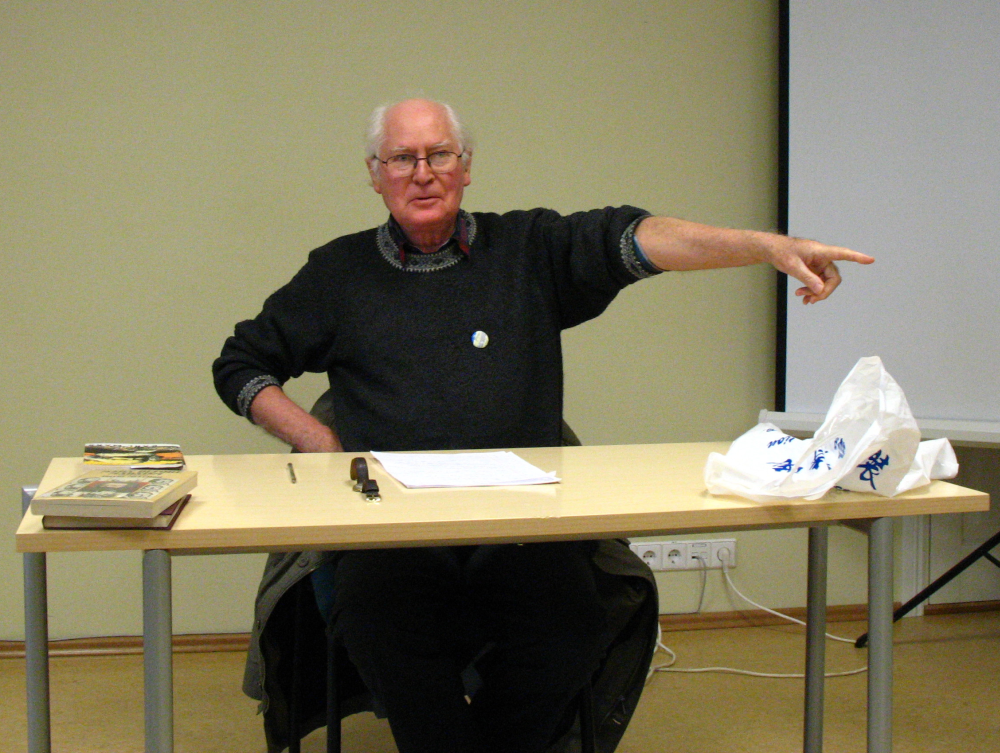 David McLellan giving a talk on Karl Marx in Tartu, Estonia on November 16th 2007.